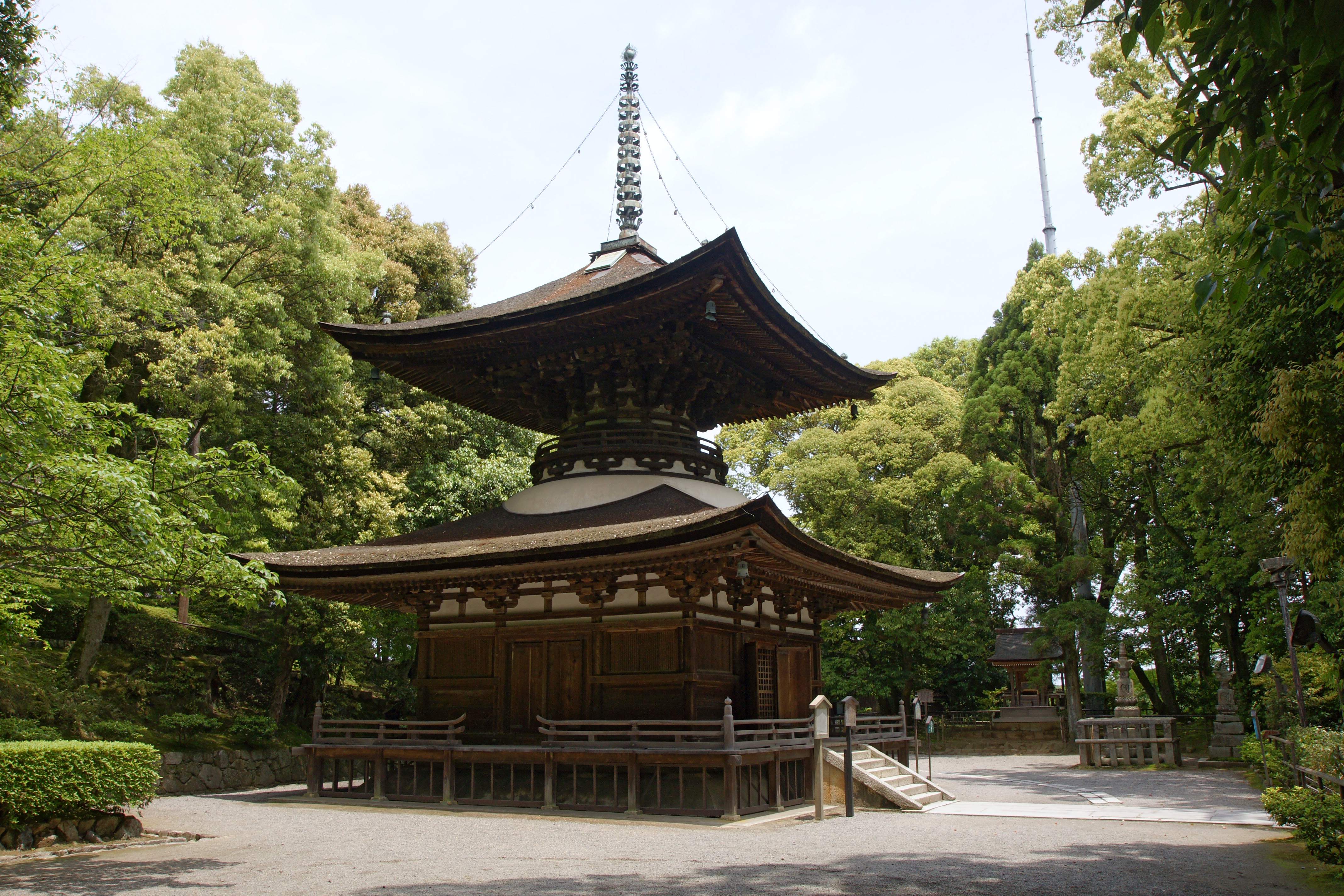 Pagoda of Ishiyama-dera Buddhist temple (Japan's national treasure), in Otsu, Shiga prefecture, Japan